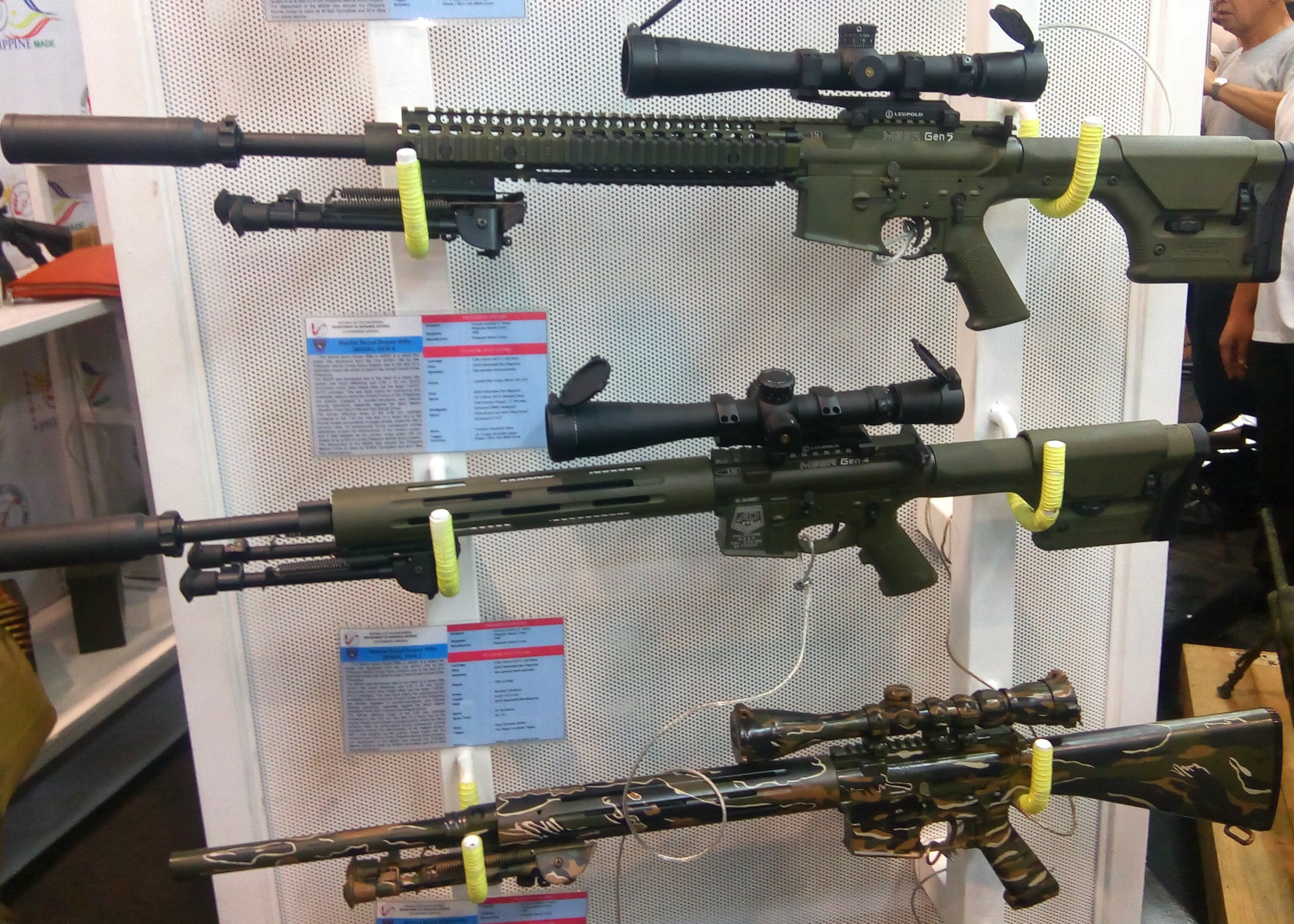 Different generation models of MSSR on display. From top to bottom: Gen 5 (prototype), Gen 4, Gen 3.